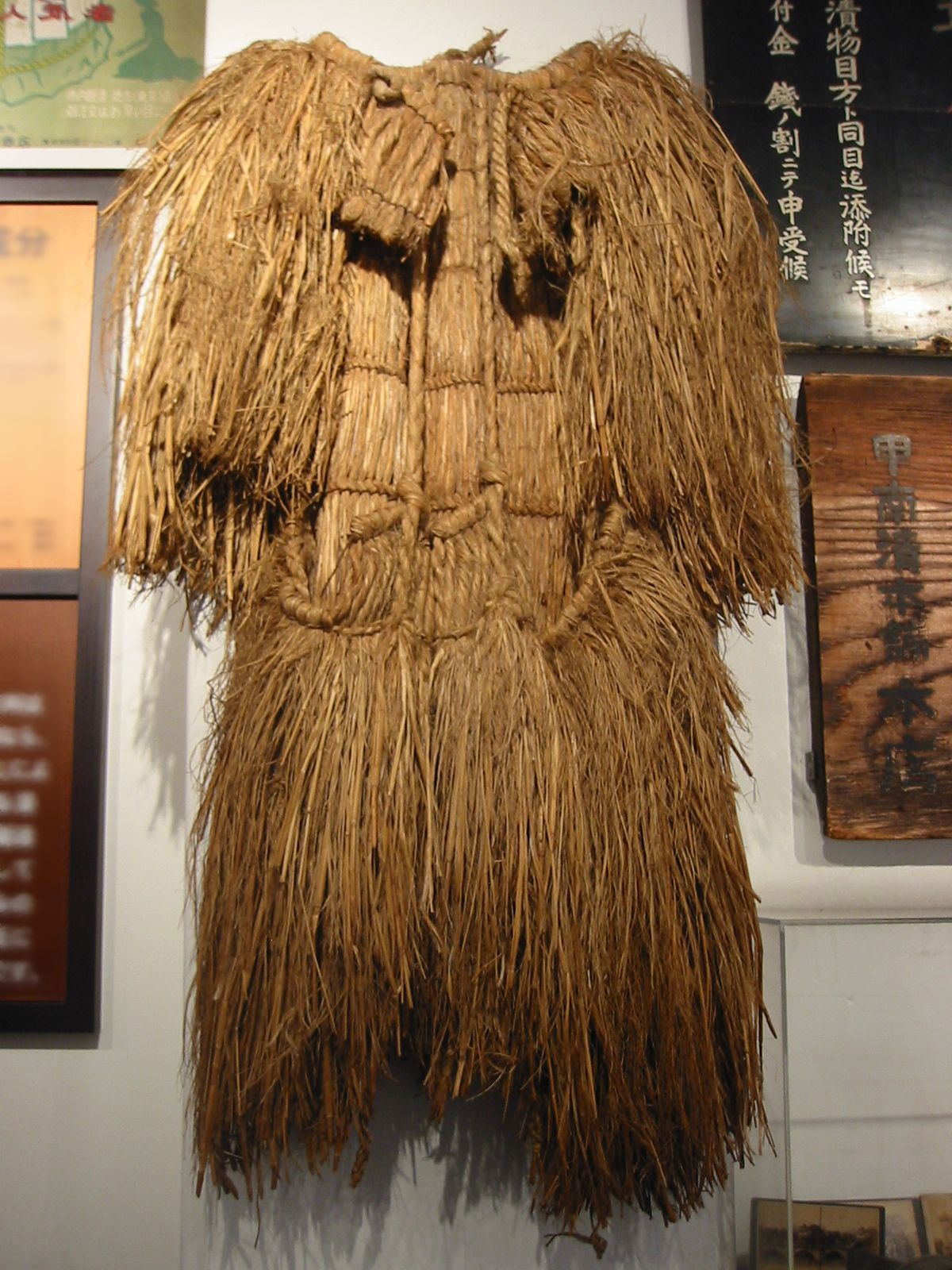 こうべ甲南、武庫の郷にて、蓑 Japanese raincoat